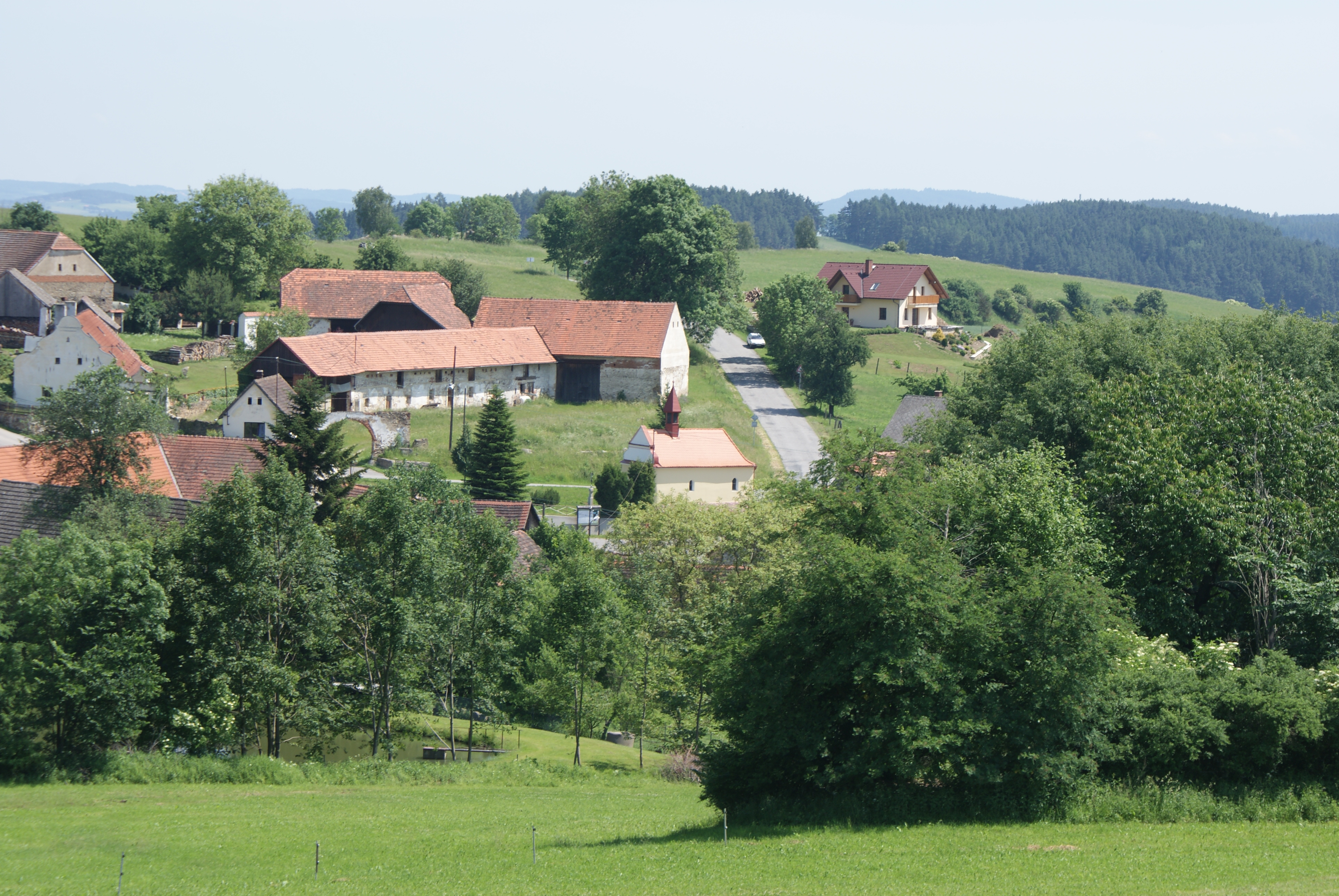 Krejnice, a village in Strakonice district, Czech Republic, a distant view of the chapel.